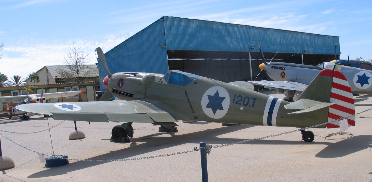 Description: Avia S199 at Muzeyon Heyl ha-Avir, Hatzerim, Israel. 2006. Source: Photo by me, User:Bukvoed.